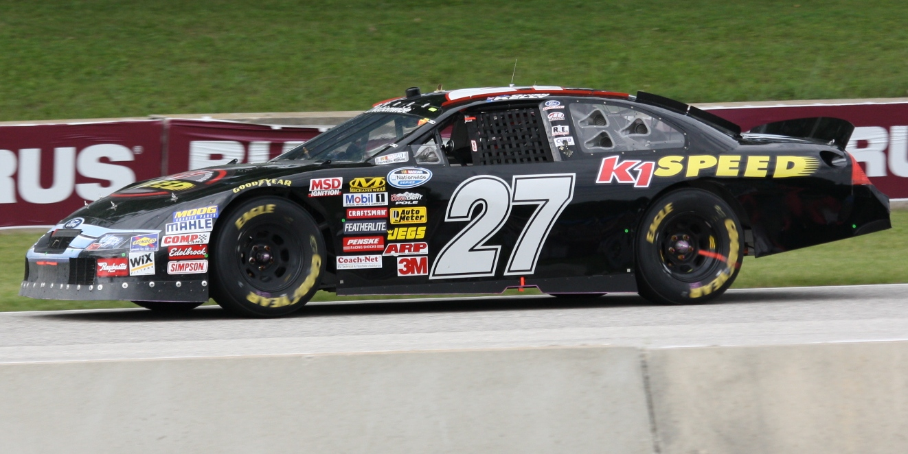 The NASCAR racecar for driver Kelly Owen at the 2010 Bucyrus 200 at Road America.